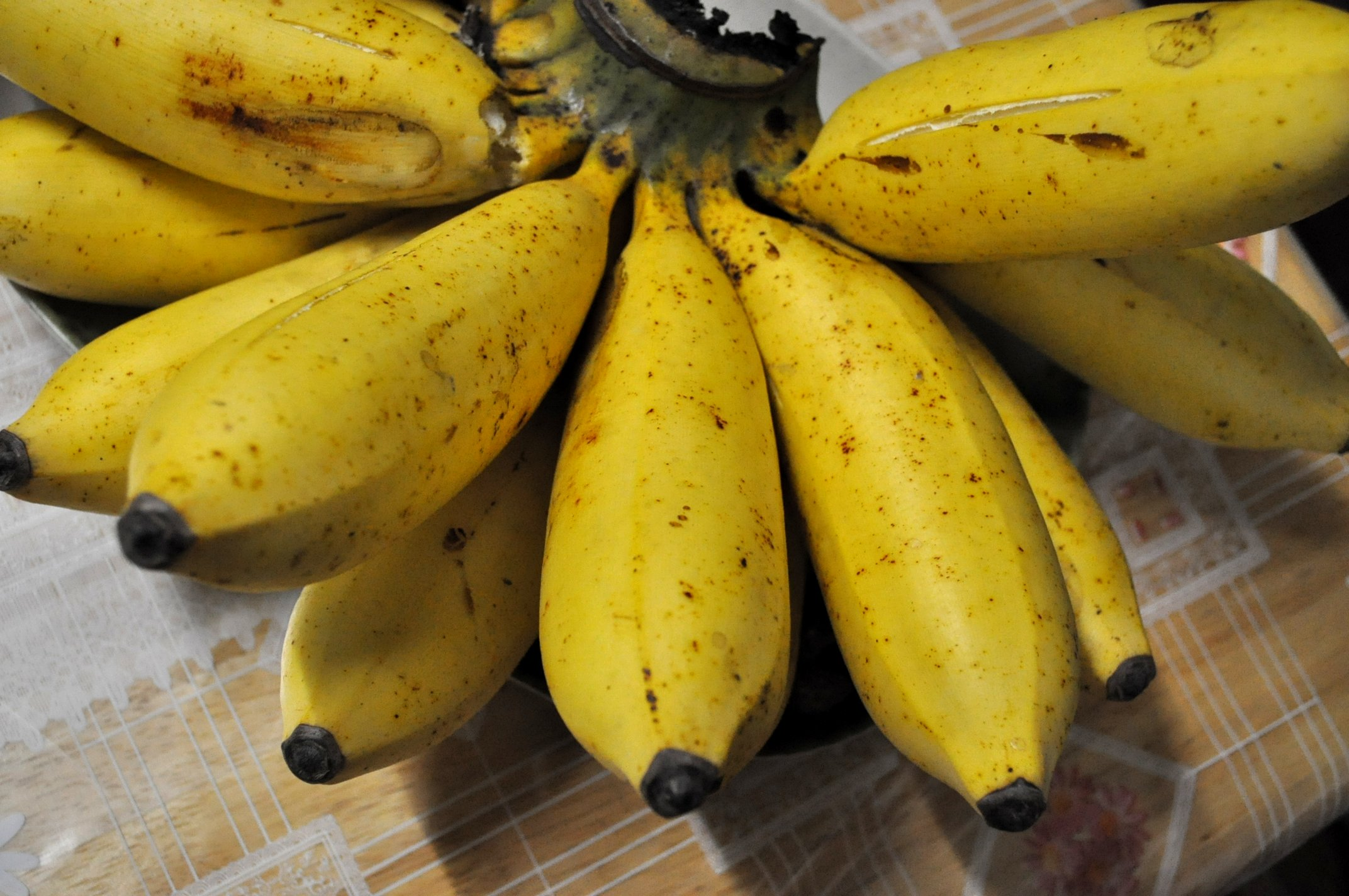 It would be hard to believe that you might have to convince someone of a good reason to eat a delicious banana, but there is at least one very good reason that people should eat a banana: potassium. They may want to stick to apples, pears or grapefruit and just aren’t looking to change, but adding banana potassium to a diet could be very important. If you are told to eat potassium you would not eat it. But thanks God He evenly put potassium inside every banana to our eating delight and the same time nourishing our nerves and muscle. Are you still able to control your fingers typing on a keyboard or clicking the mouse? Remember that is possible because you have enough potassium level in your body. How often you eat a banana?